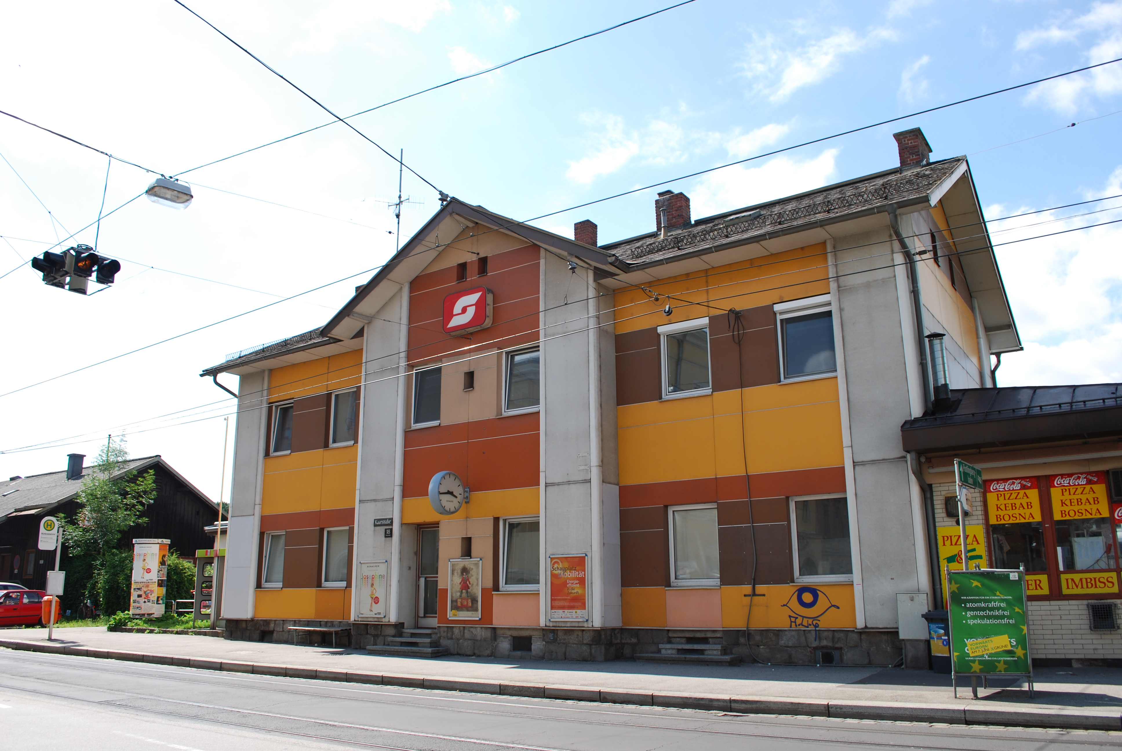 Trainstation Linz Urfahr